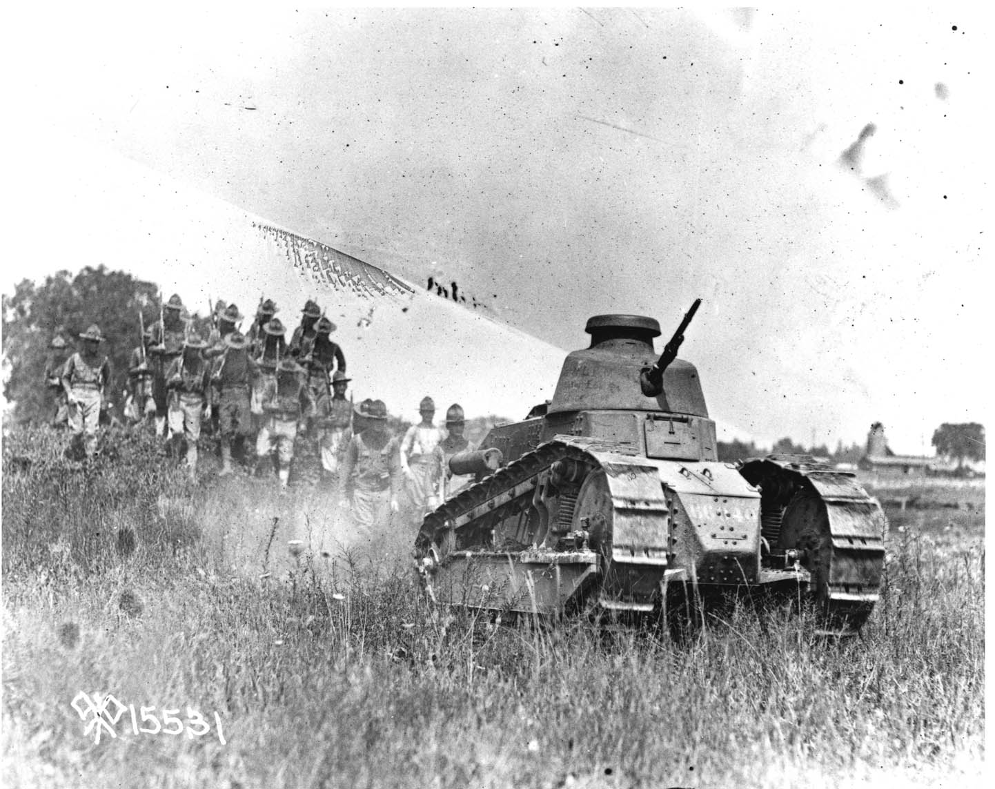 Soldiers at Camp Colt follow a Renault tank over the remains of the bank barn on the Bliss farm on the fields of Pickett's Charge. Eisenhower was responsible for training the soldiers to operate ands fight with tanks, a new weapon in 1918. The Gettysburg battlefield was their classroom. August 8, 1918, Photographer James L. McGarrigle.